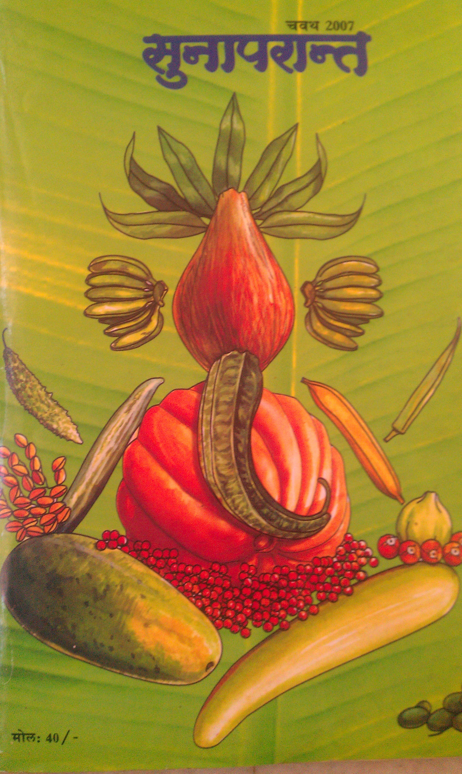 Konnkani daily Sunaparat